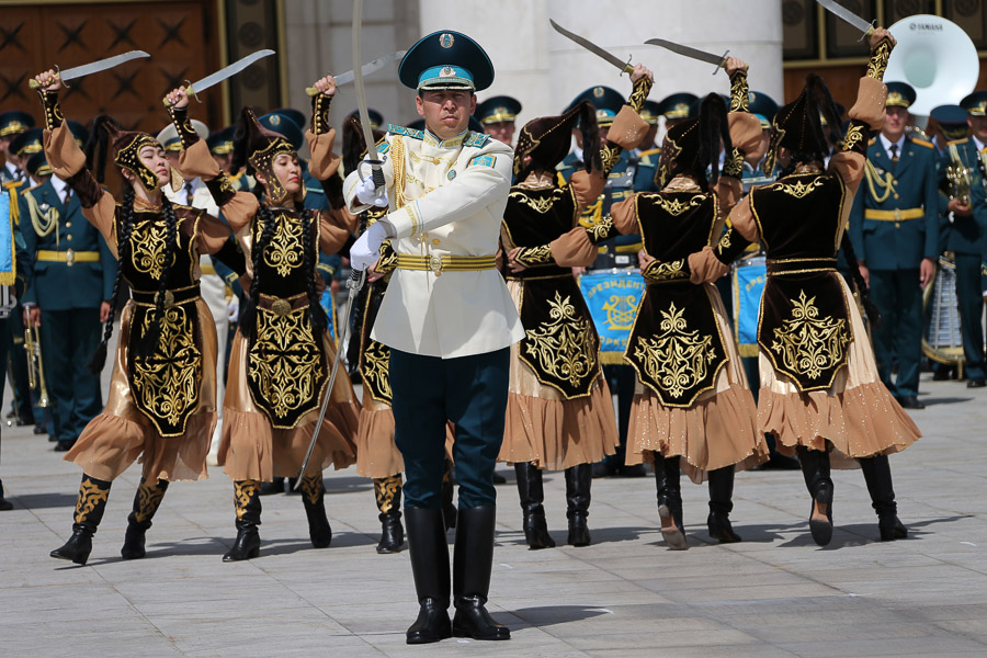 Closing ceremony of the international festival "Trumpet of Peace 2016" (Kazakhstan, Astana)